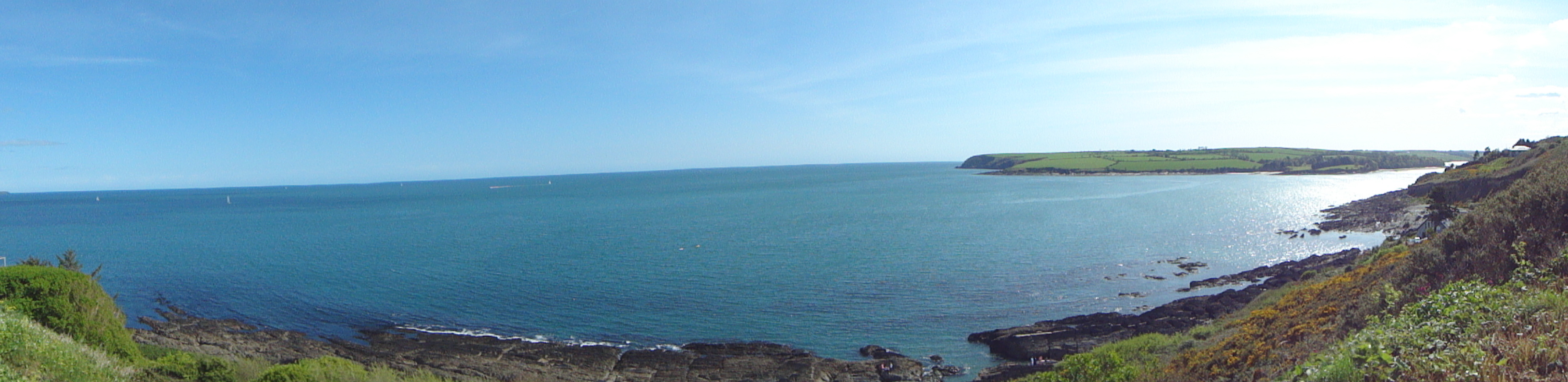 Ringabella Bay, just few miles away from Carrigaline, in the south of Cork City, Co. Cork, Ireland.